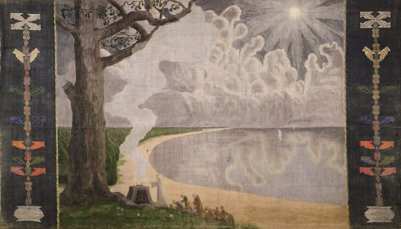 Backdrop painted by Mikalojus Konstantinas Čiurlionis for the Rūta Society. Size 310 x 500 cm